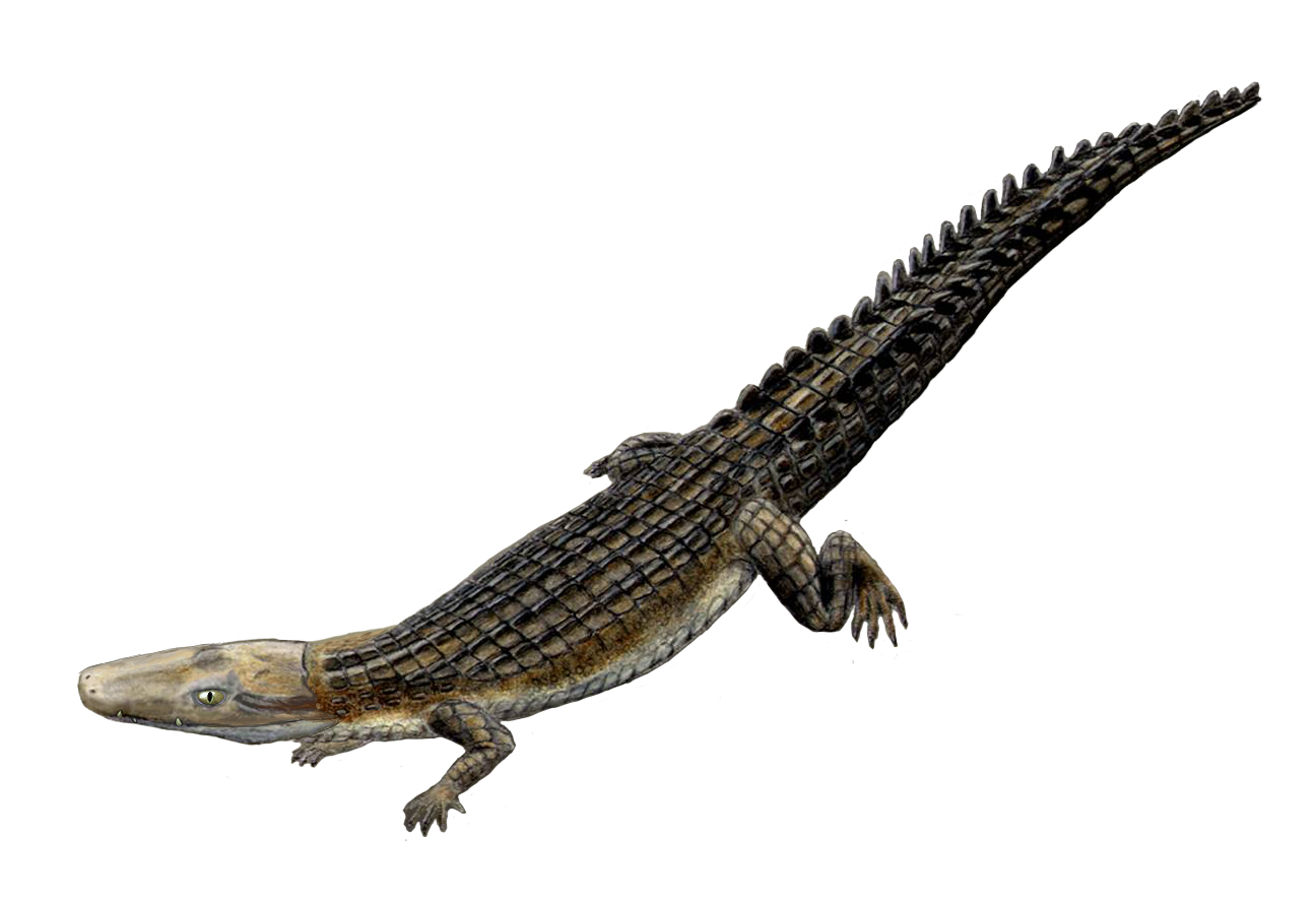 Life restoration of Baryphracta deponiae. Based on figures in "Reappraisal of the morphology and phylogenetic relationships of the middle Eocene alligatoroid Diplocynodon deponiae (Frey, Laemmert, and Riess, 1987) based on a three-dimensional specimen" by Massimo Delfino and Thierry Smith (Journal of Vertebrate Paleontology 32(6): 1358-1369).